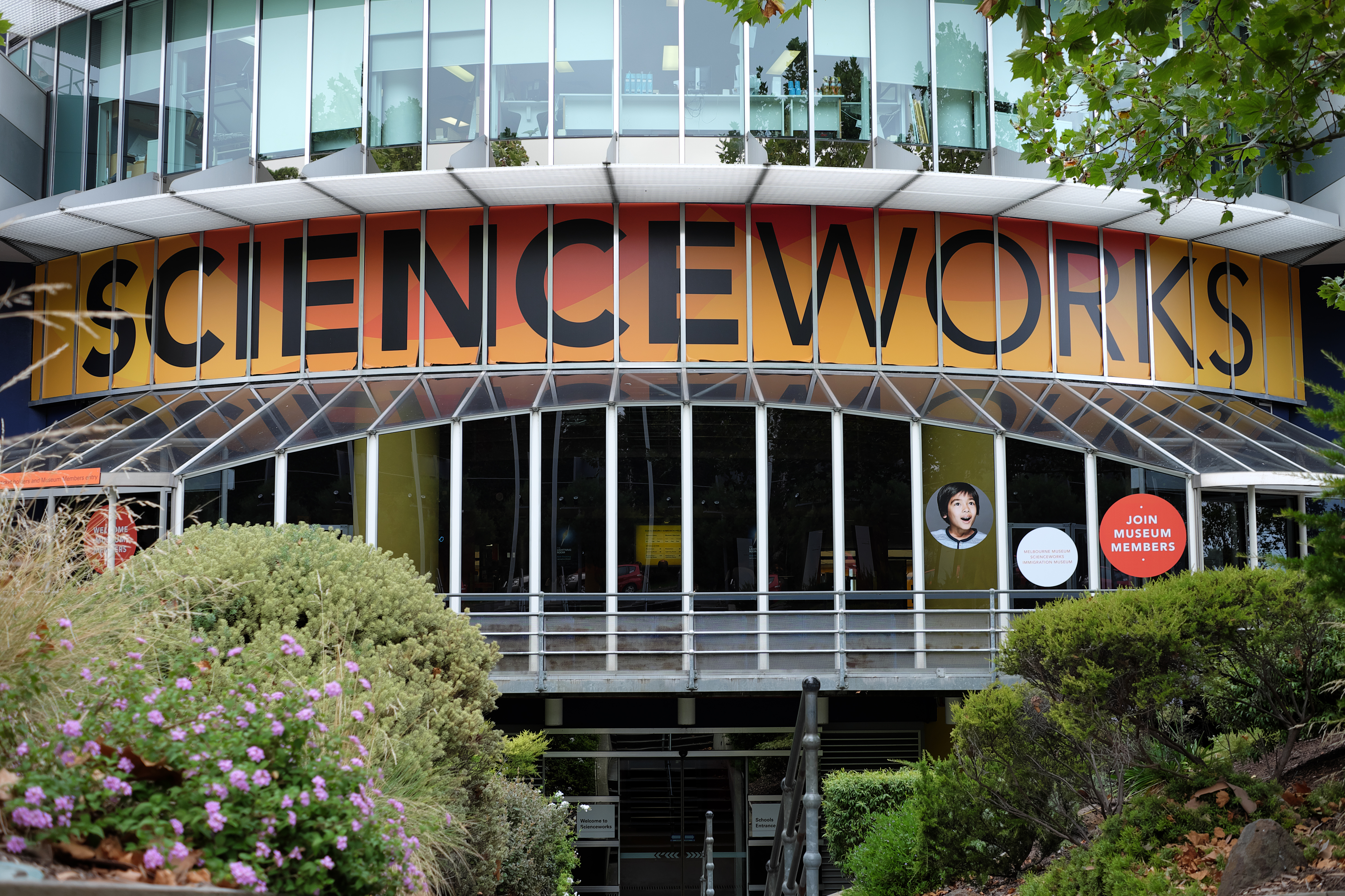 A photograph of the entrance to the Scienceworks museum in Melbourne, Australia.